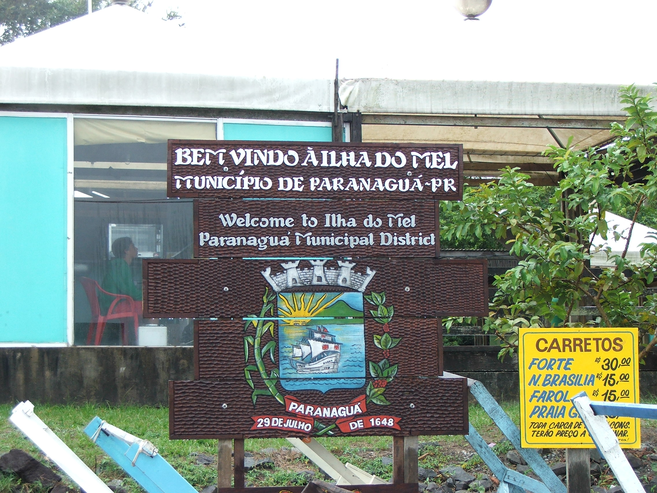 Welcome ad at Mel Island , Parana, Brazil.